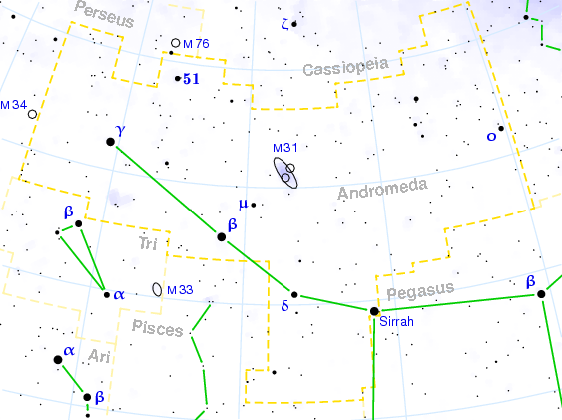 This is a celestial map of the constellation Andromeda. Copyright © 2005 Torsten Bronger. It was created by Torsten Bronger using the program PP3 on 19/05/2005. At PP3's homepage, you also get the input scripts necessary for re-compiling the map. The yellow dashed lines are constellation boundaries, the red dashed line is the ecliptic, and the shades of blue show Milky Way areas of different brightness. The map contains all Messier objects, except for colliding ones. The underlying database contains all stars brighter than 6.5. All coordinates refer to equinox 2000.0. The map is calculated with the azimuthal equidistant projection (the azimuth being in the center of the image). The north pole is to the top. The (horizontal) lines of equal declination are drawn for 0°, ±10°, ±20° etc. The lines of equal rectascension are drawn for all 24 hours. The scale of the map is (approx.) 11.8 pixel per degree at the centre of the bitmap. Towards the rim there is a very slight magnification (and distortion).